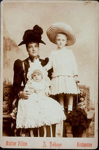 Queen Amélia of Portugal with her two sons, Prince Louis Philippe and Prince Manuel of Portugal